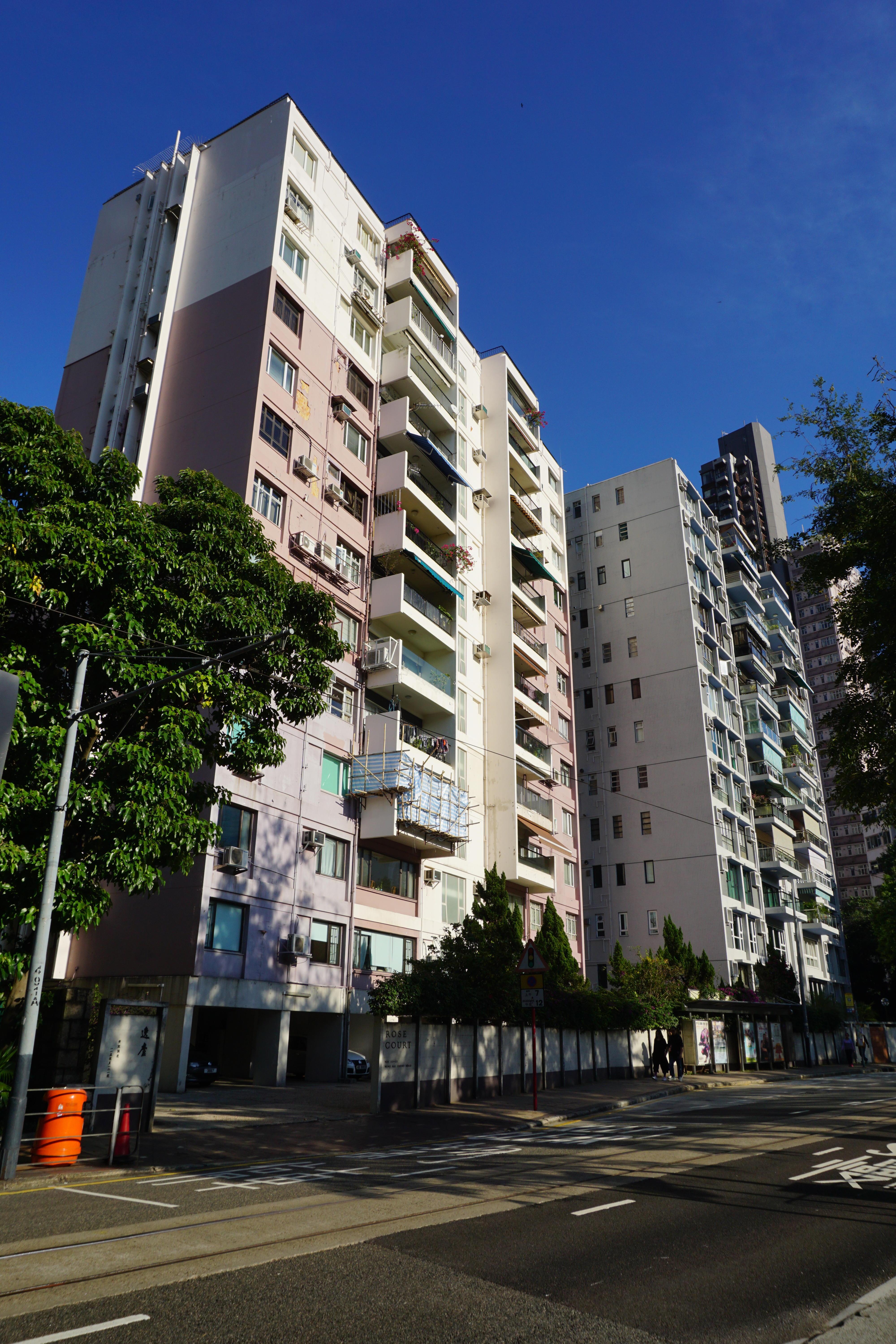 Rose Court in Happy Valley, Hong Kong.